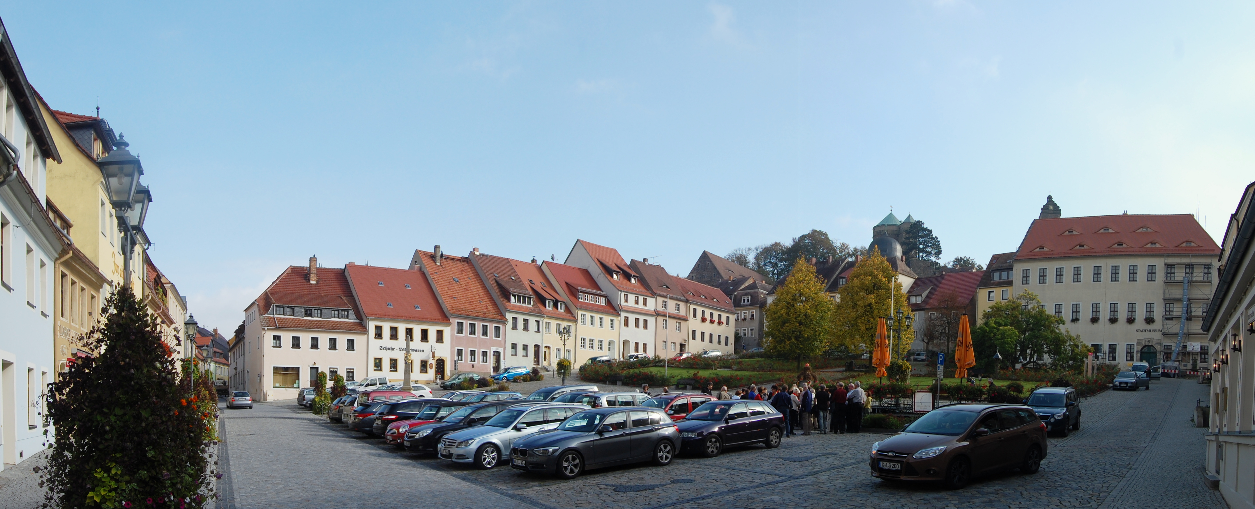 Stolpen Marketplace Panorama